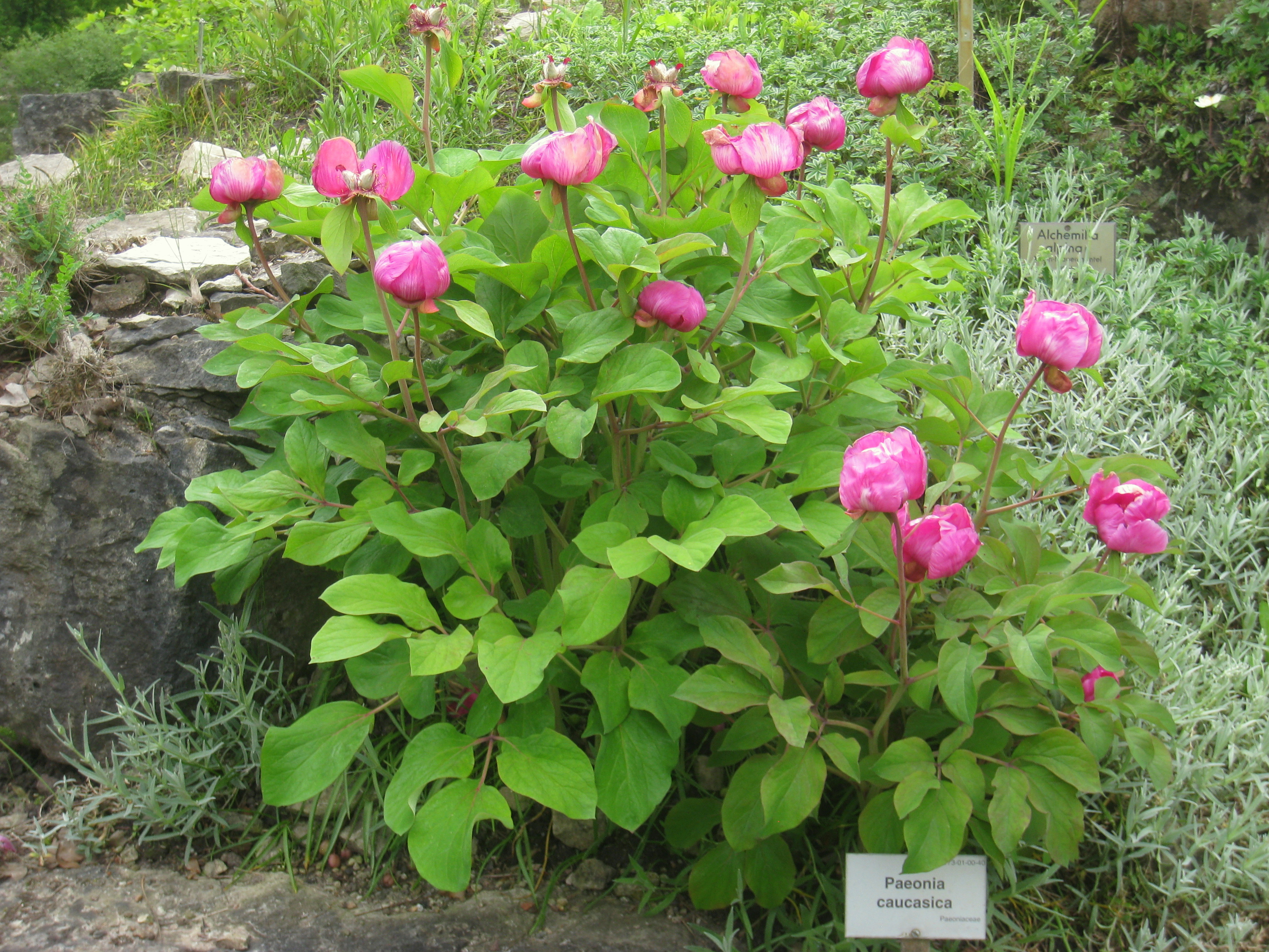 Paeonia daurica subsp. coriifolia (P. caucasica) specimen, in the Botanischer Garten, Berlin-Dahlem (Berlin Botanical Garden), Berlin, Germany.